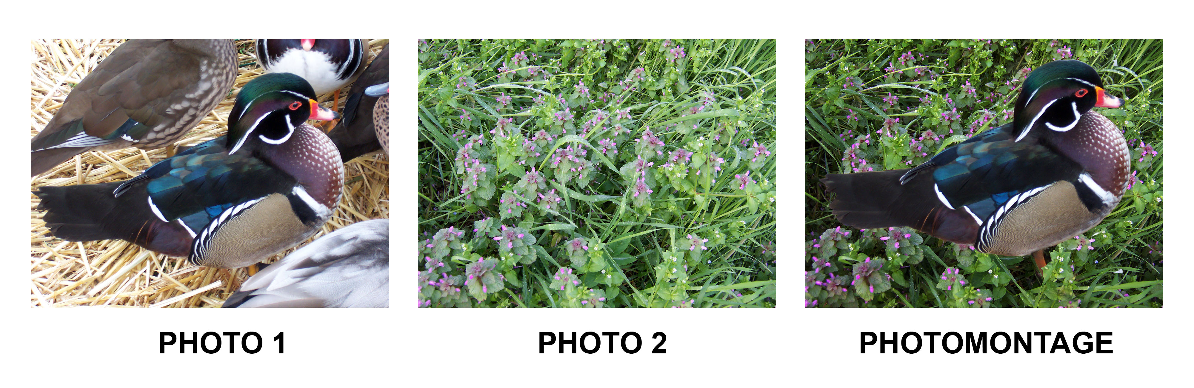 Photomontage from two photos